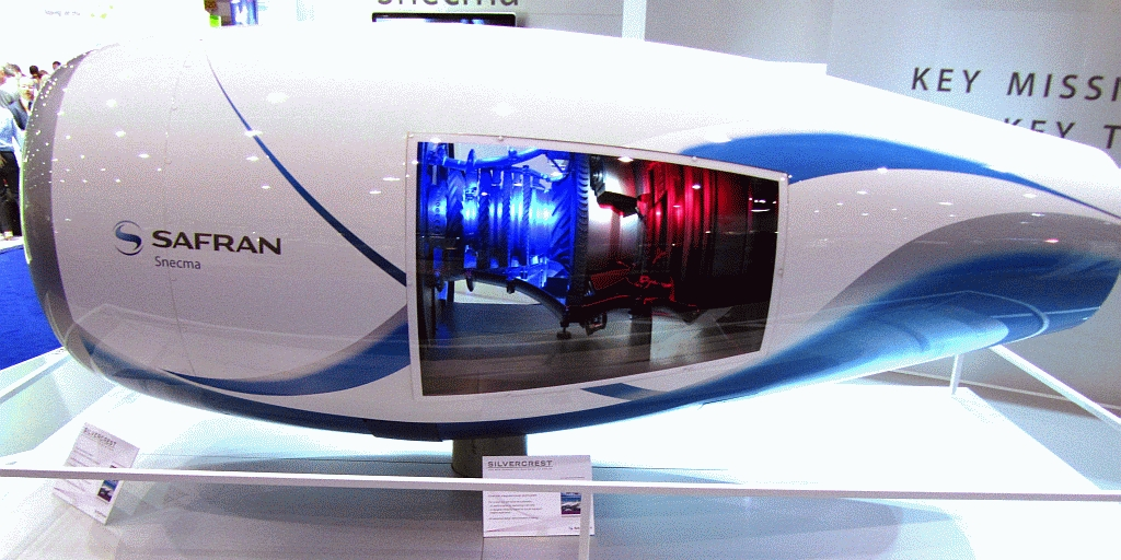 The French turbofan Snecma Silvercrest